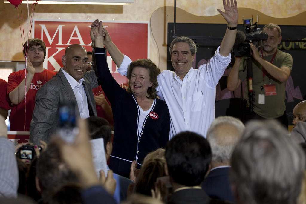 April 30, 2011: Liberal Leader Michael Ignatieff visits Max Khan's campaign office in Oakville, Ontario.